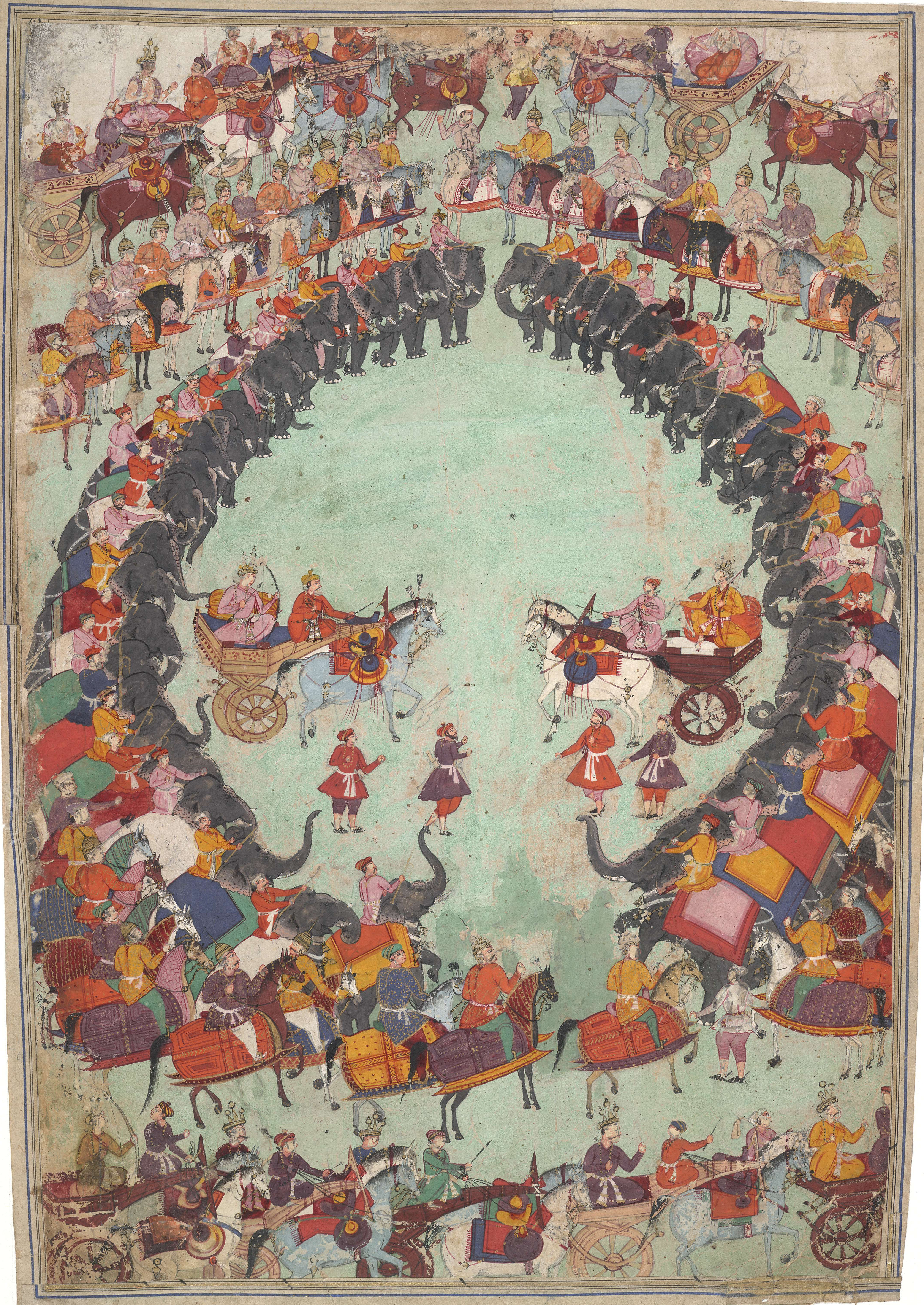 Arjuna and Bhima preparing for battle, from a Razmnaameh Mughal India, early 17th century Opaque watercolour and ink on paper This dramatic composition illustrates one of the last battles before the final great battle of the epic. Arjuna, the mighty warrior, and Bhima, the strongest of the Pandava brothers, stand on tehir chariots readying their arrows. Surrounding them are an inner circle of war elephants and an outer circle of cavalry on armoured horses. As before, the armour is Mughal, in contrast to the 'ancient' chariots. The small scale of the figures and large size of the page indicate that this comes from a later manuscript than the 1598 Razmnameh.